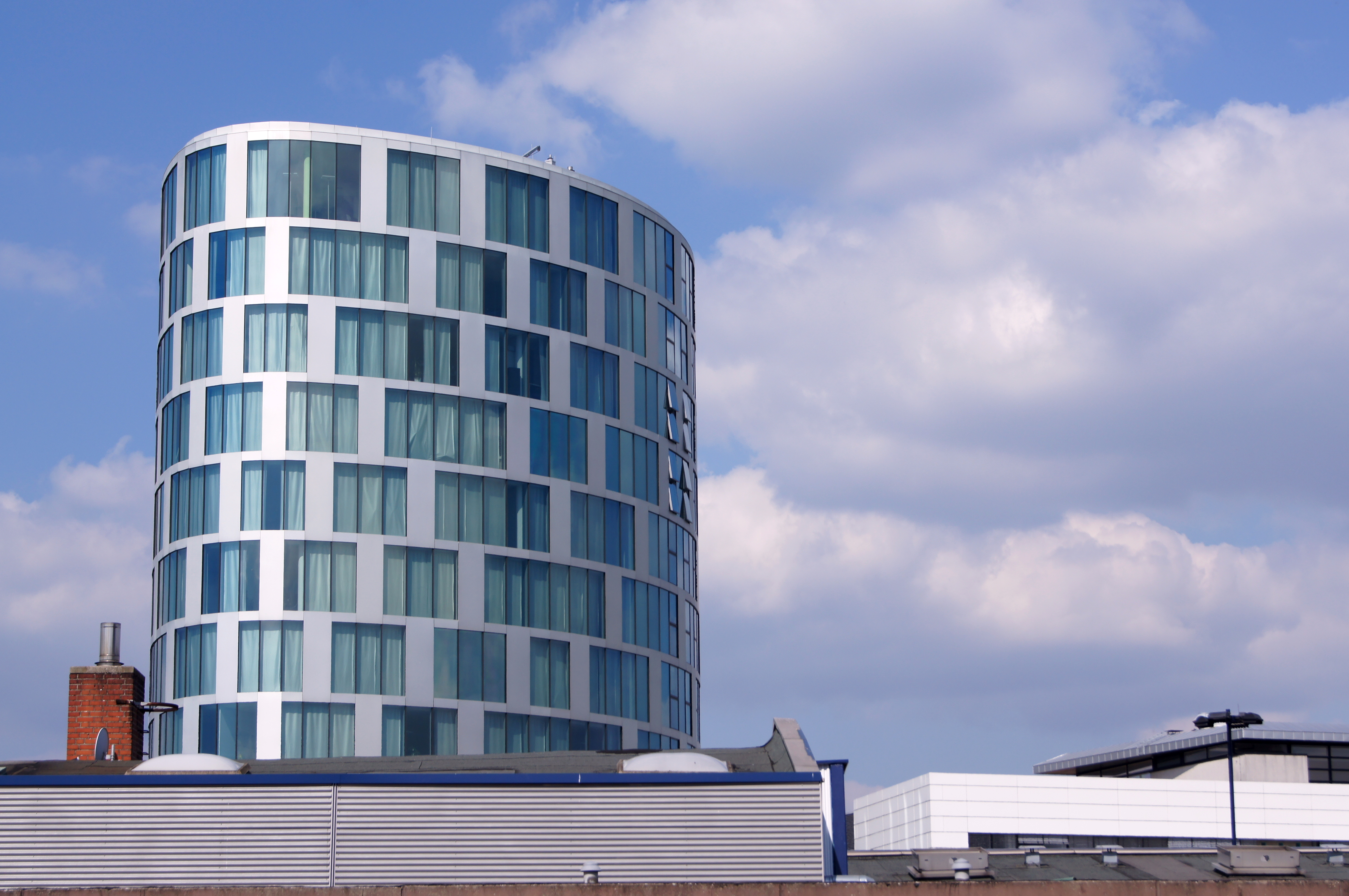 Office tower was build in 2001 by Rainer Maria Kresing, located in Münster, Hammer Straße 165. The tower is used by zeb/.